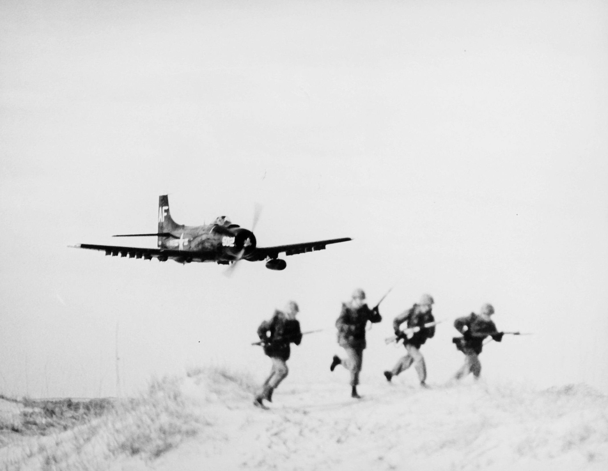 A U.S. Marine Corps Douglas AD-4N Skyraider from Marine attack squadron VMA-211 Wake Island Avengers provides air support at Onslow Beach during a landing exercise in the 1950s. Onslow Beach is a 12 km stretch of undeveloped beach at Marine Corps Base Camp Lejeune in Onslow County, North Carolina (USA). It has been used at various times for practice amphibious landings by the U.S. Navy.